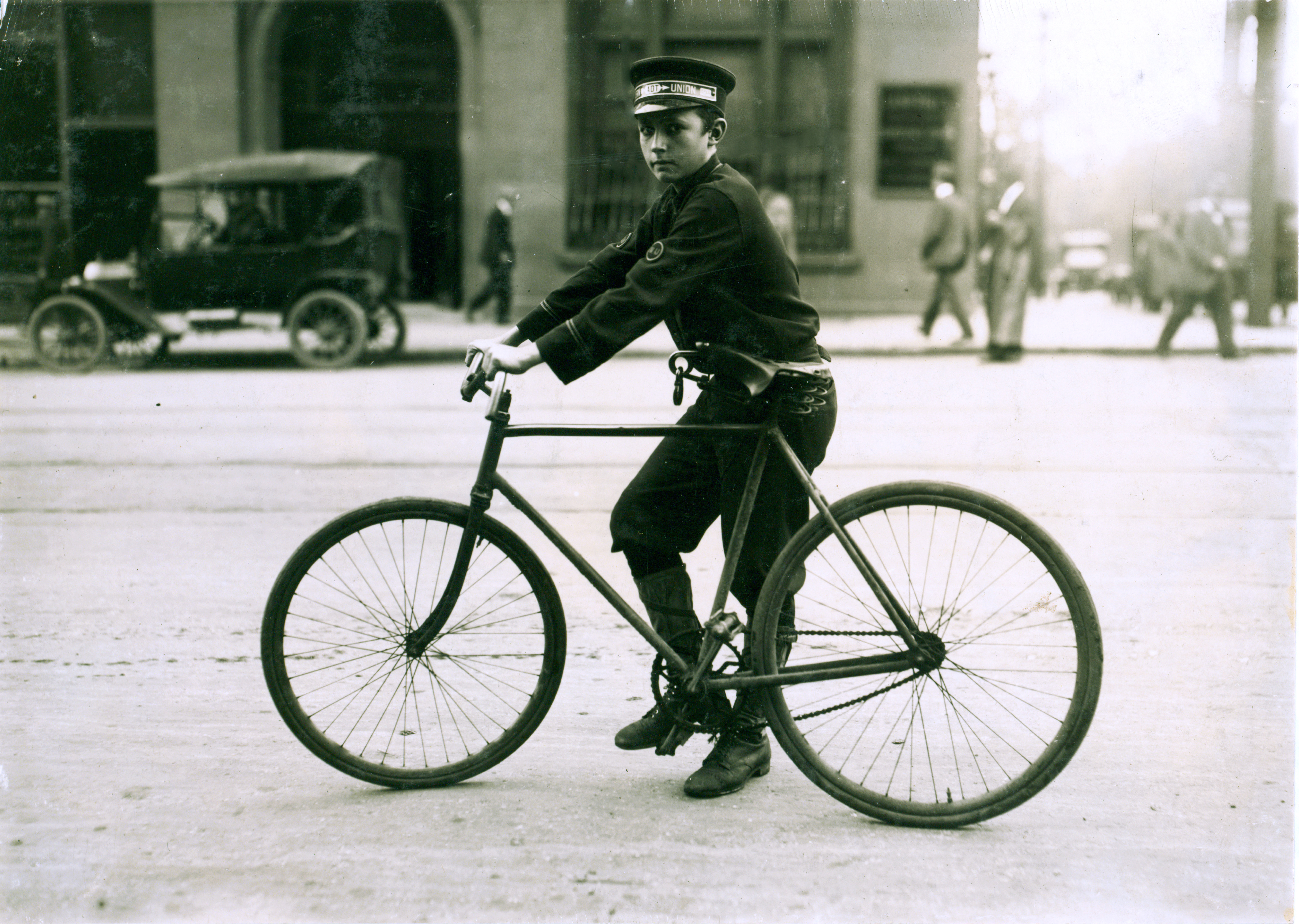 A typical Birmingham messenger. Location: Birmingham, Alabama. Photograph by Lewis Wickes Hine, October 1914.